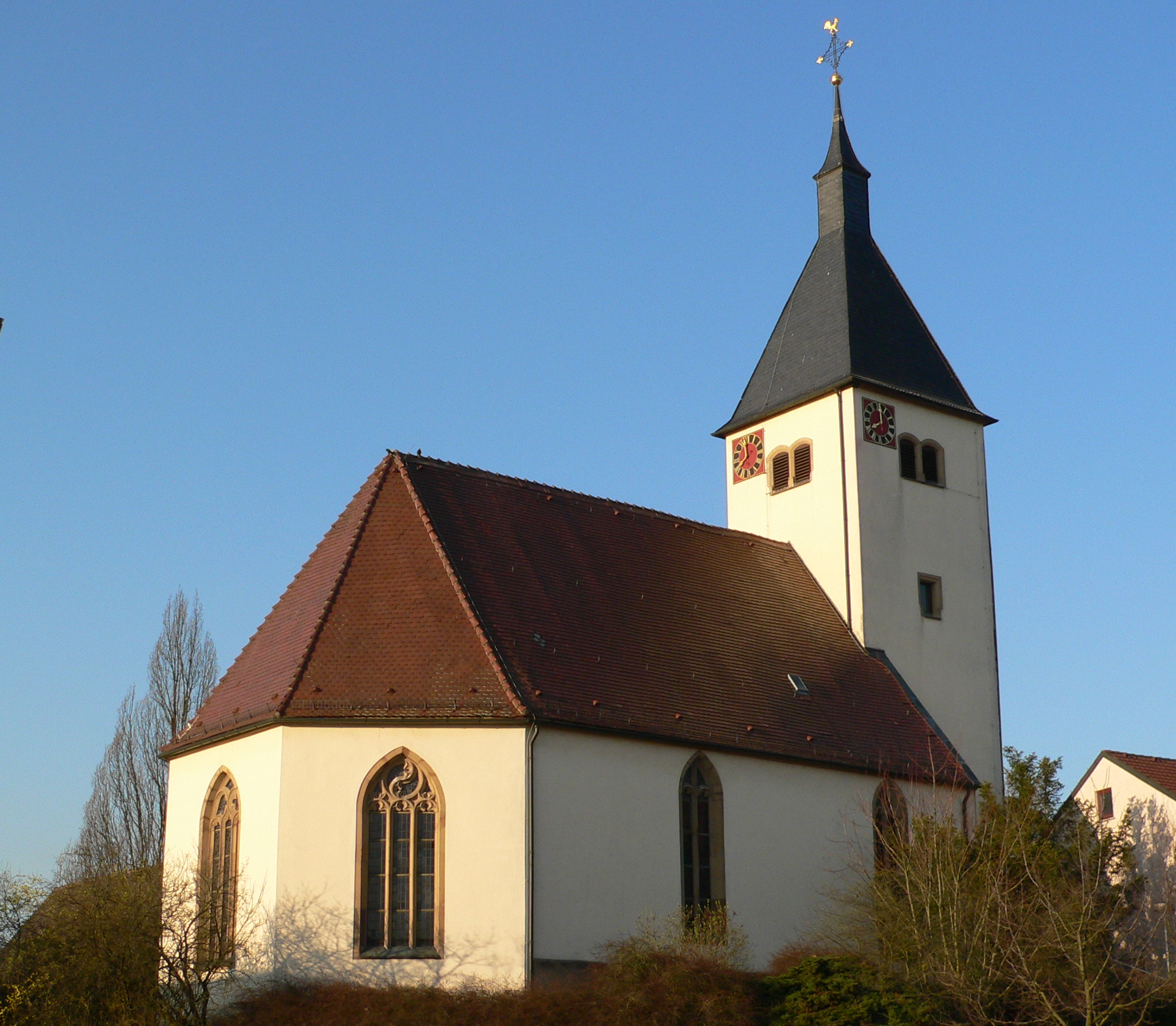 St. Maurice Church (rebuilt 1601) in the small town Neckarsulm-Obereisesheim